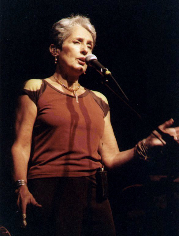 Joan Baez at The Neighborhood Theatre, Charlotte, North Carolina (3 October 2003)